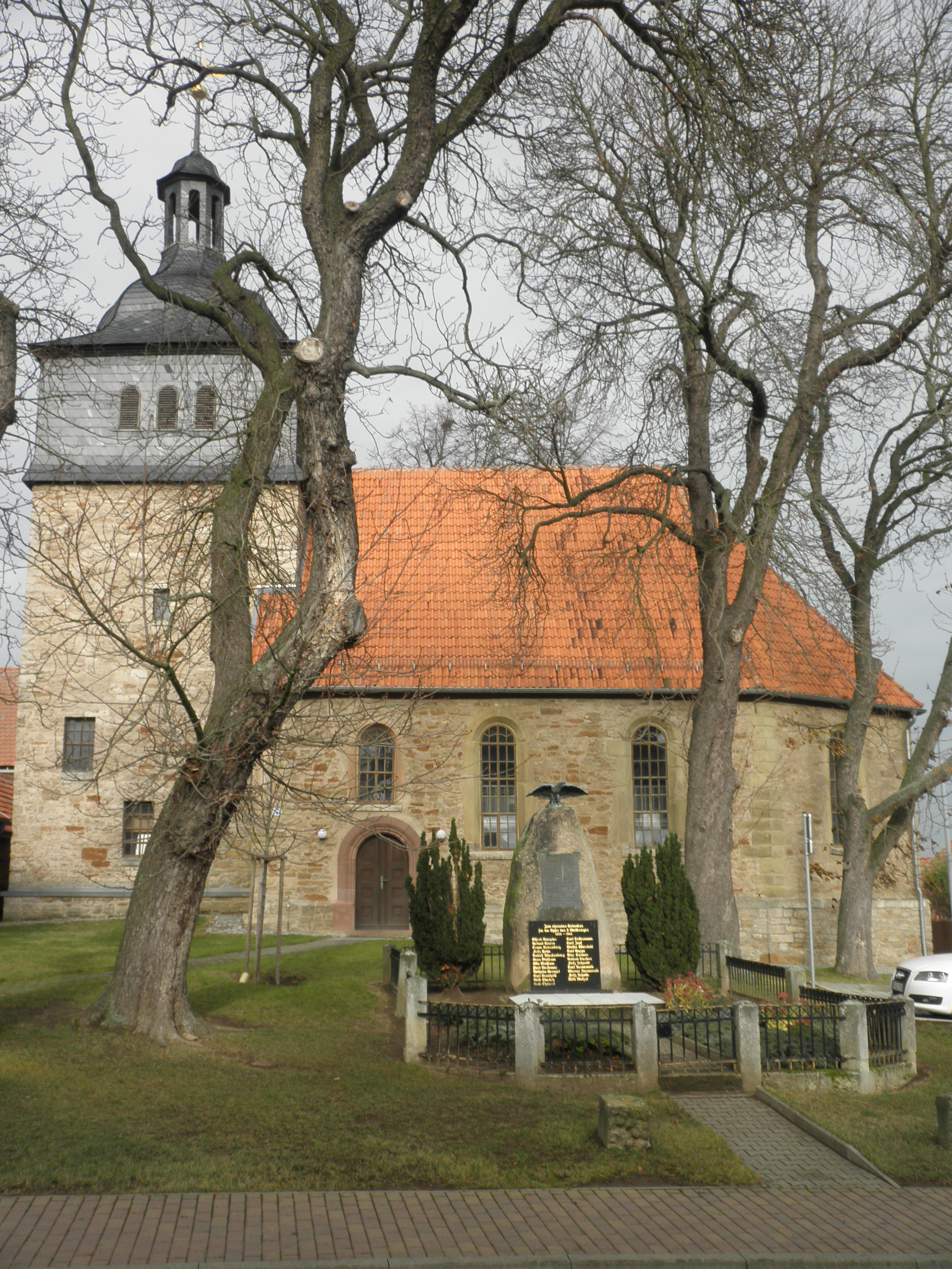 Church in Freienbessingen in Thuringia